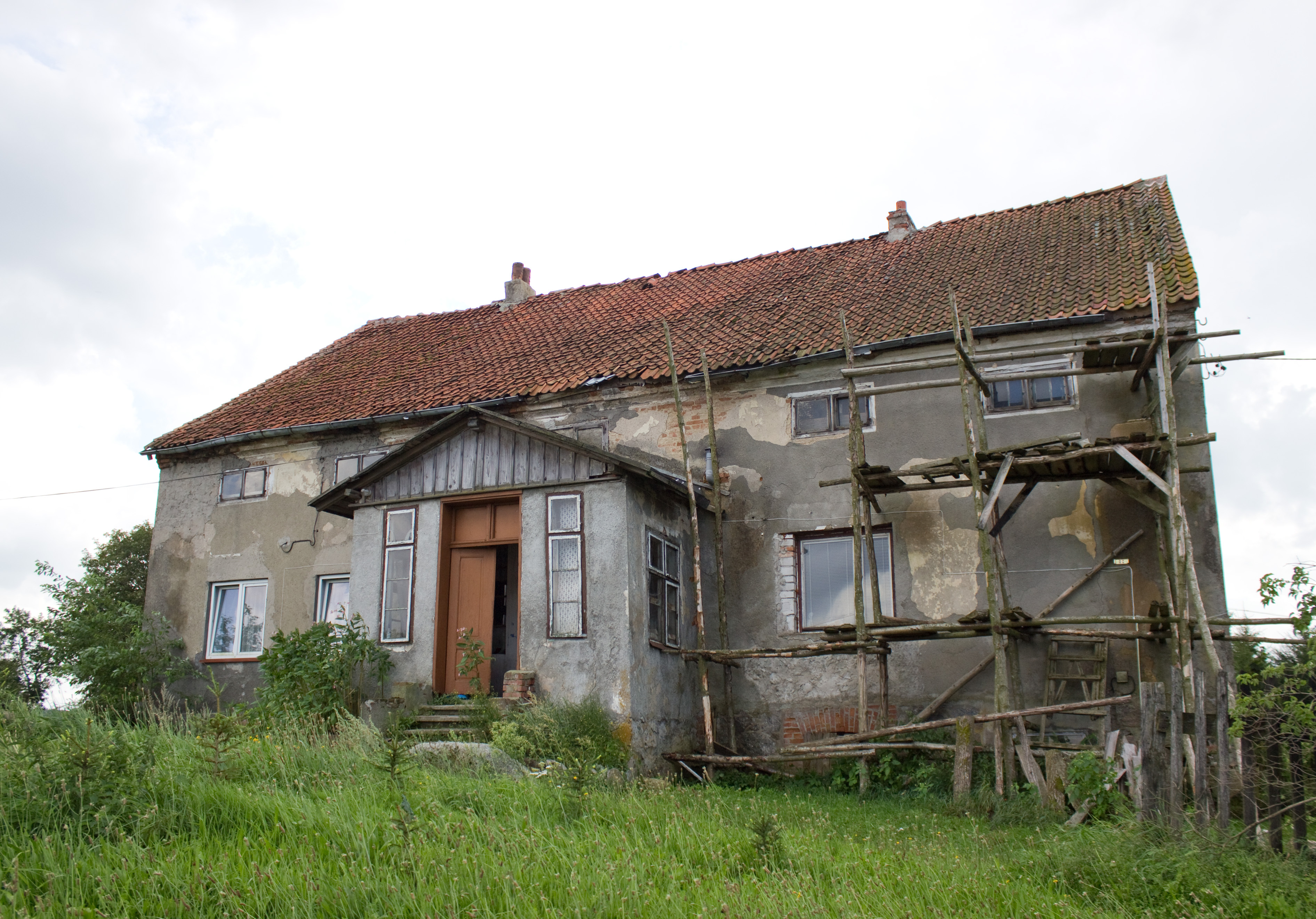 Manor house, Gronowo, gmina Mrągowo, powiat mrągowski, Warmian-Masurian Voivodeship